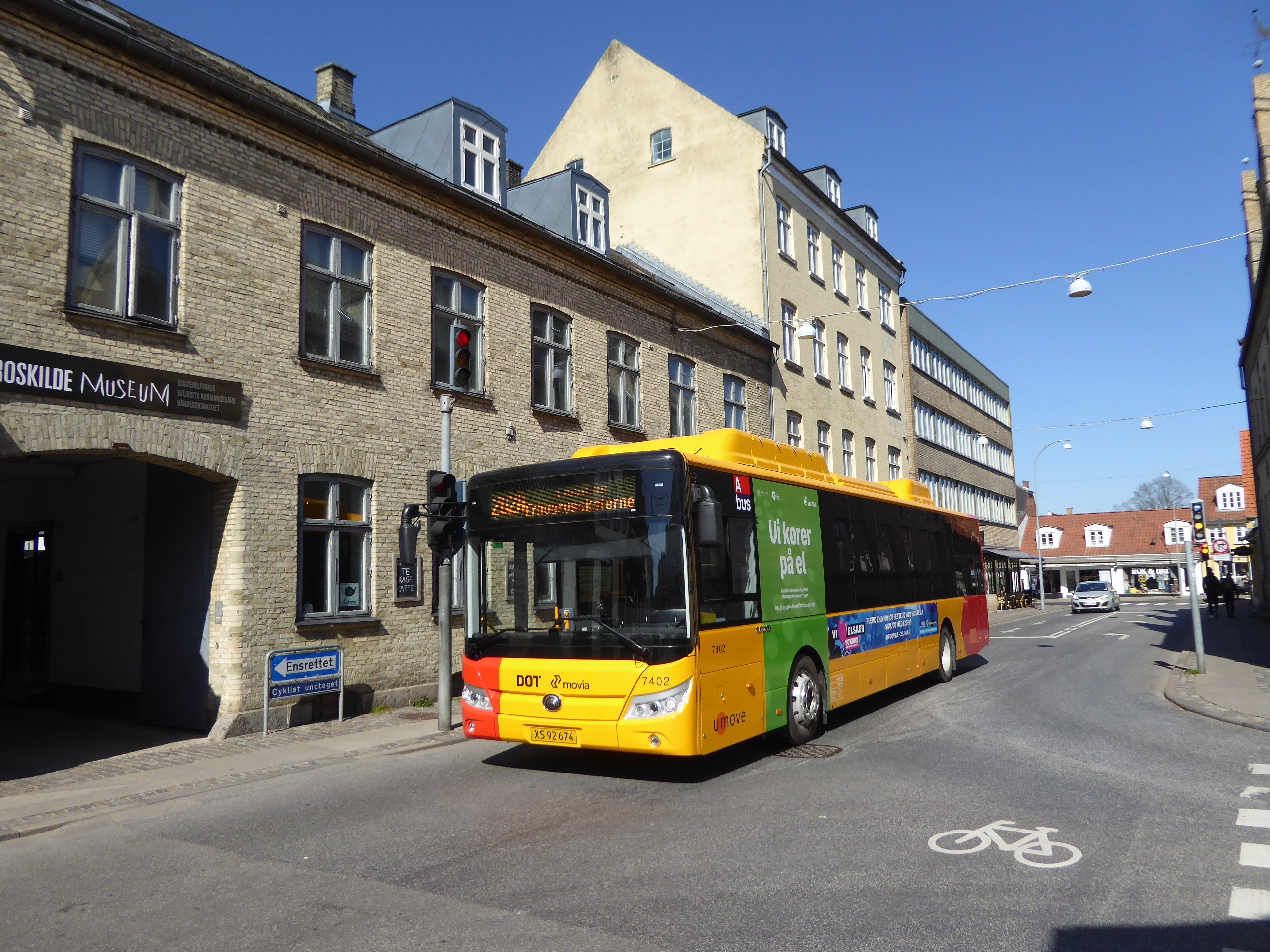 Movia bus line 202A on Ringstedgade in Roskilde in Denmark. The day before all the local bus lines of Roskilde got electric Yutong E12LF buses like this.